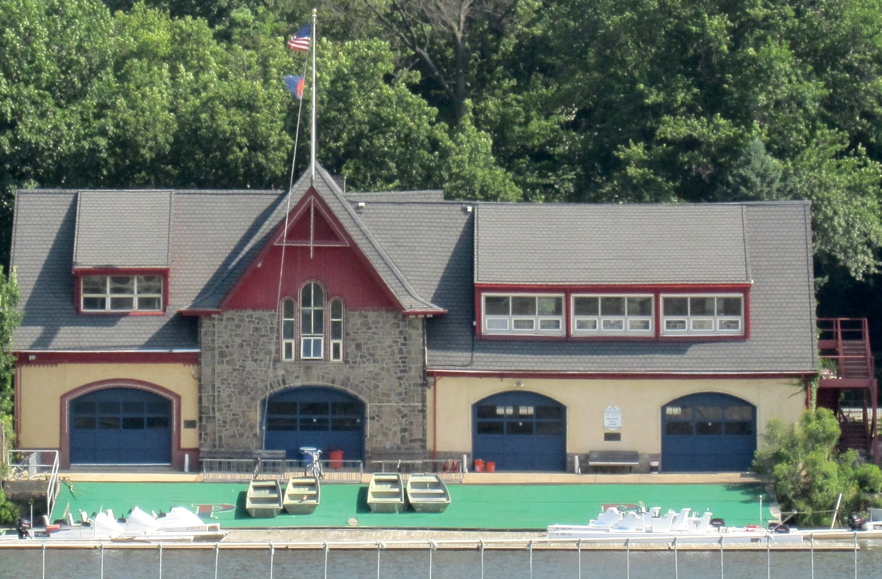 College Boat Club #11 Boathouse Row, Philadelphia, PA (1874)